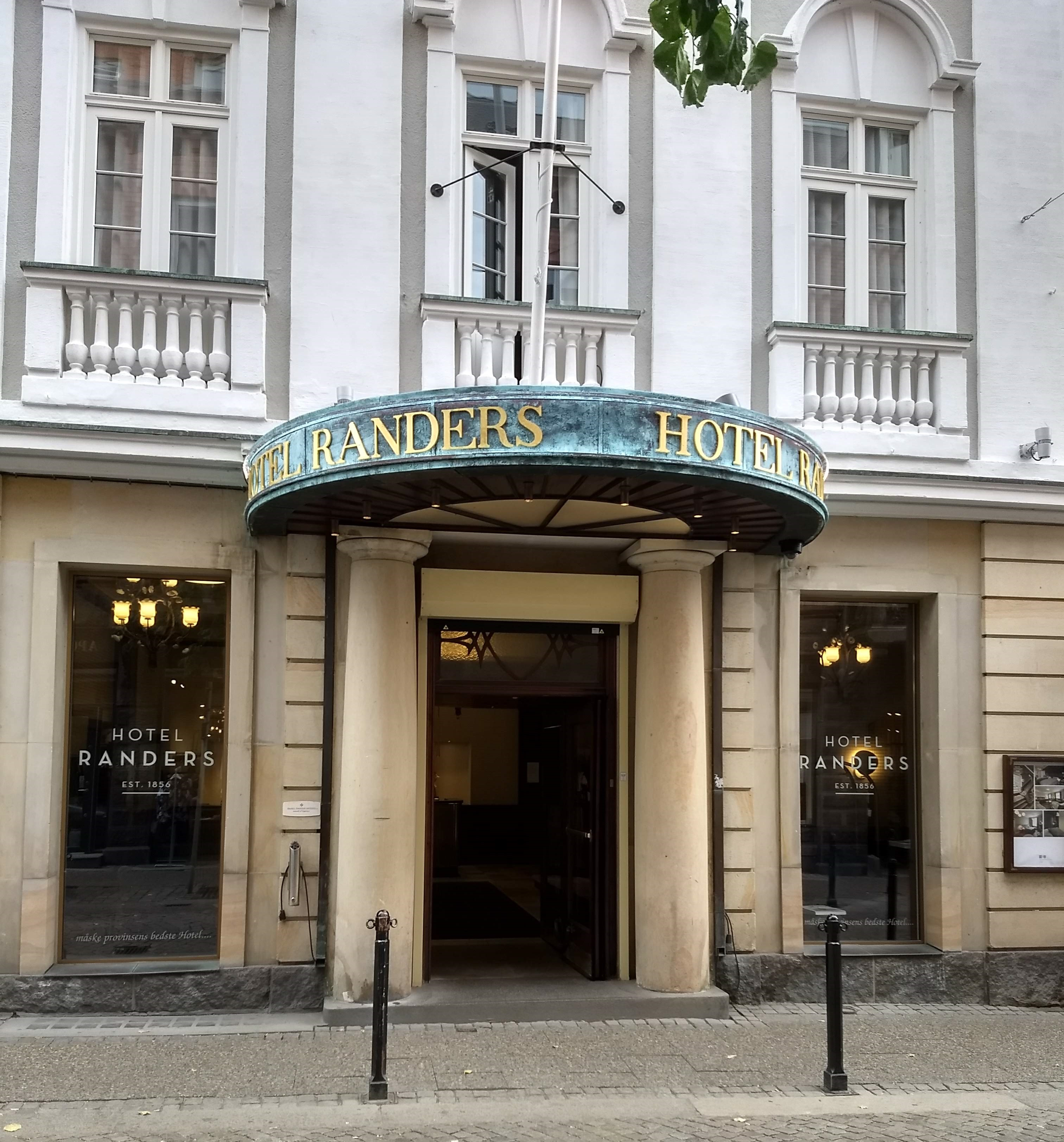 Hotel Randers, Randers, DK